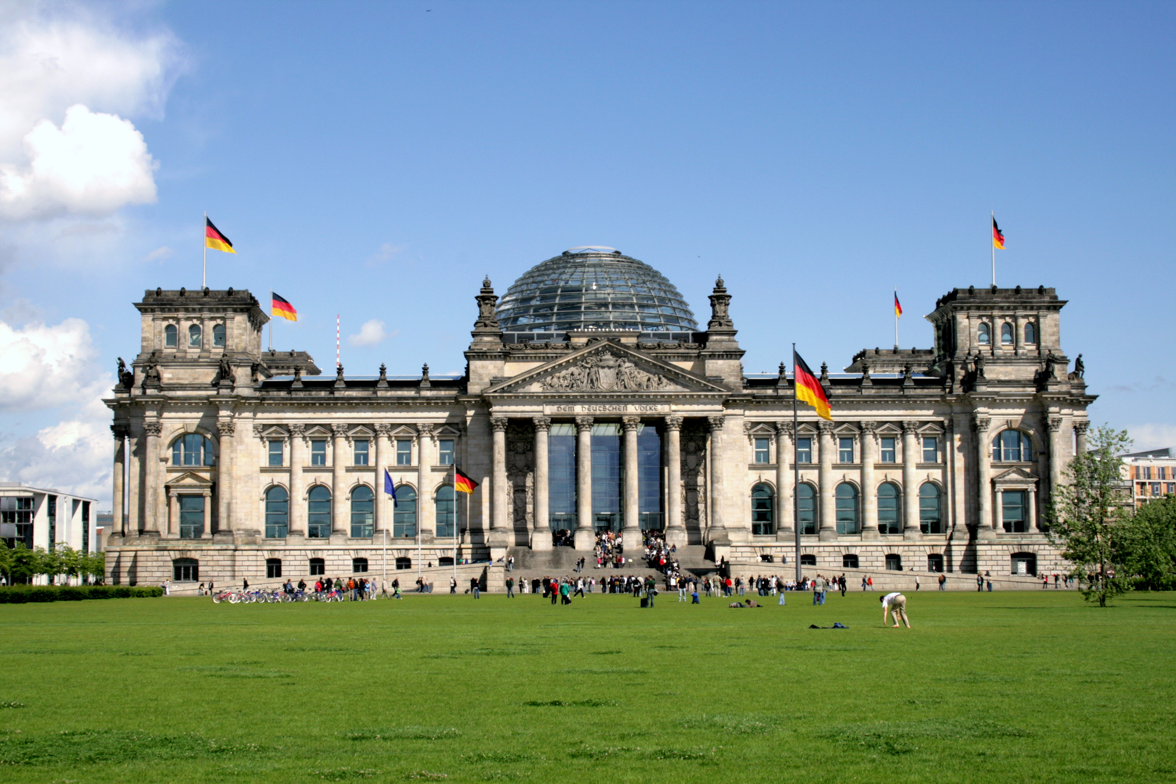 The Reichstag-building in Berlin